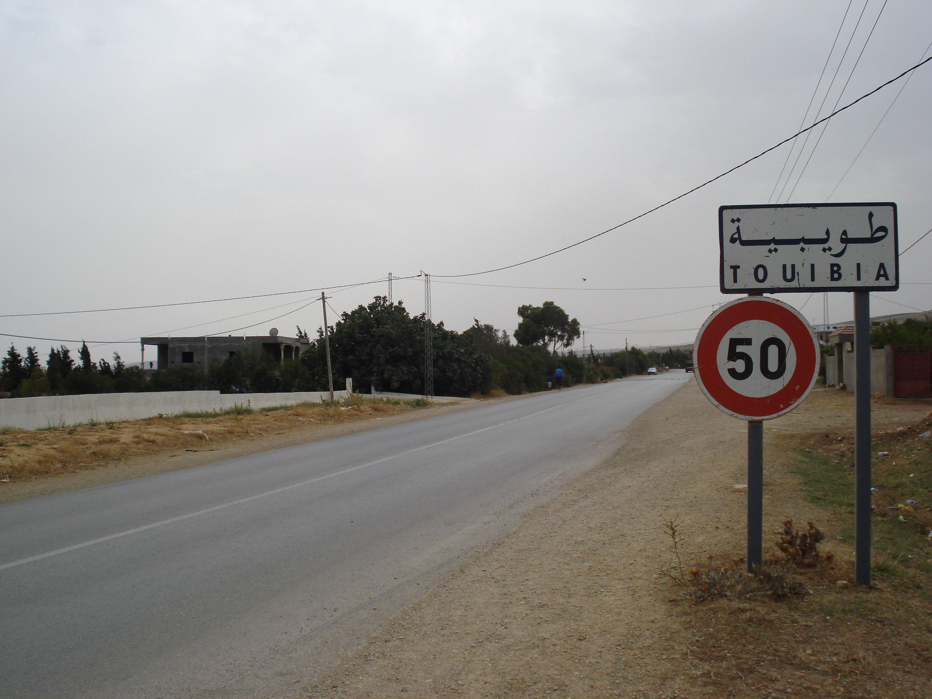 Touibia village, governorate of Bizerte.